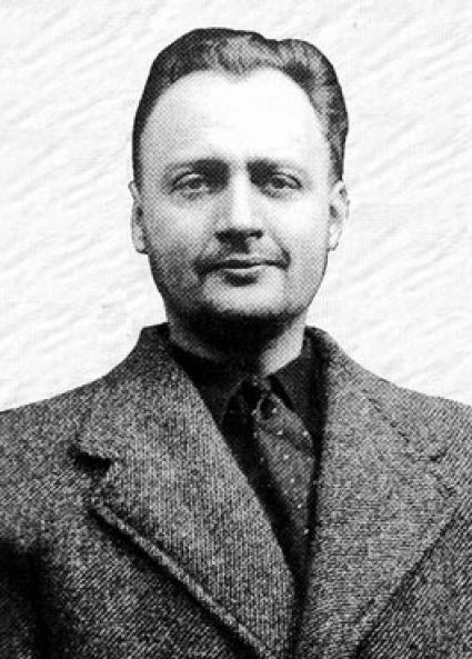 Jan Doornik (1905-1941), officer of the Free French Forces, Compagnon de la Libération